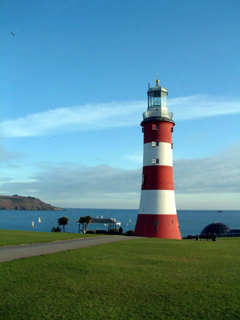 The third Eddystone Lighthouse, originally on the Eddystone Rocks built by John Smeaton in 1759, and relocated to Plymouth Hoe in 1877. For more information see the Wikipedia article Eddystone Lighthouse.